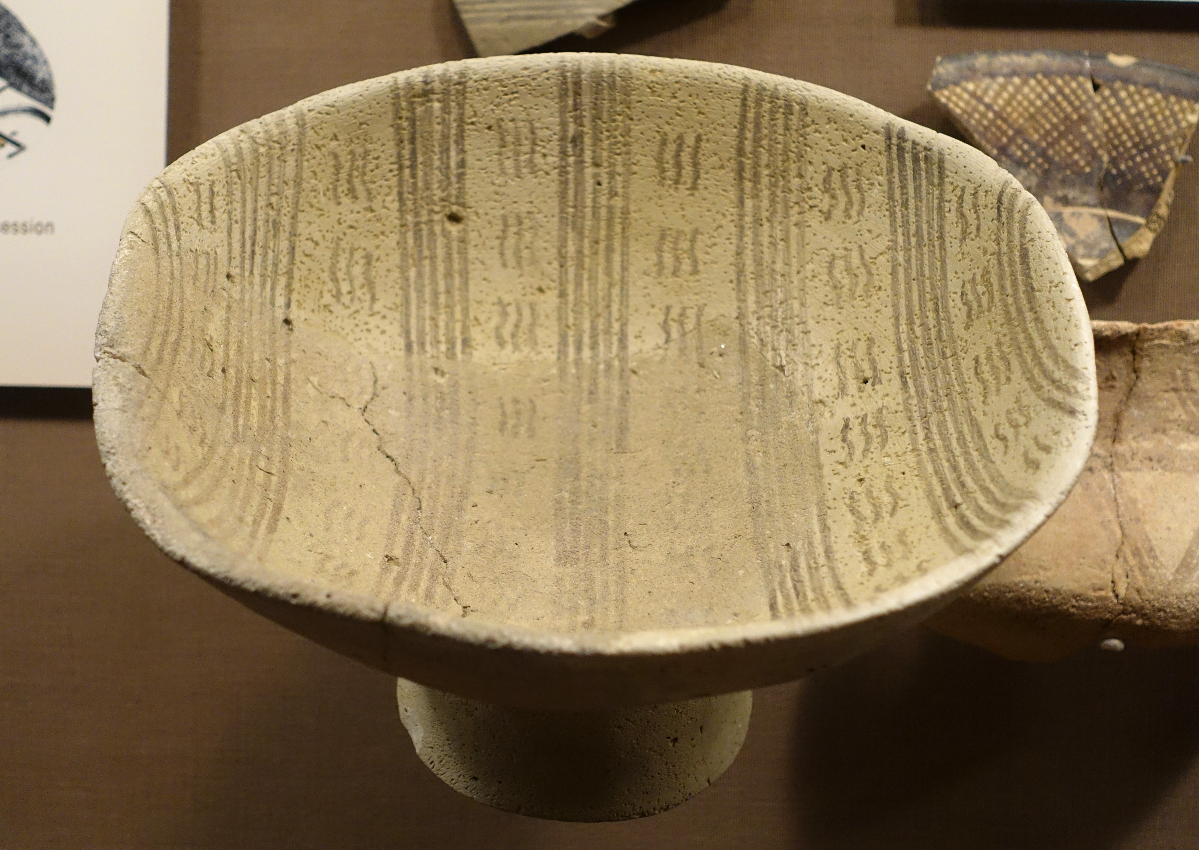 Exhibit in the Oriental Institute Museum, University of Chicago, Chicago, Illinois, USA. This work is old enough so that it is in the public domain.